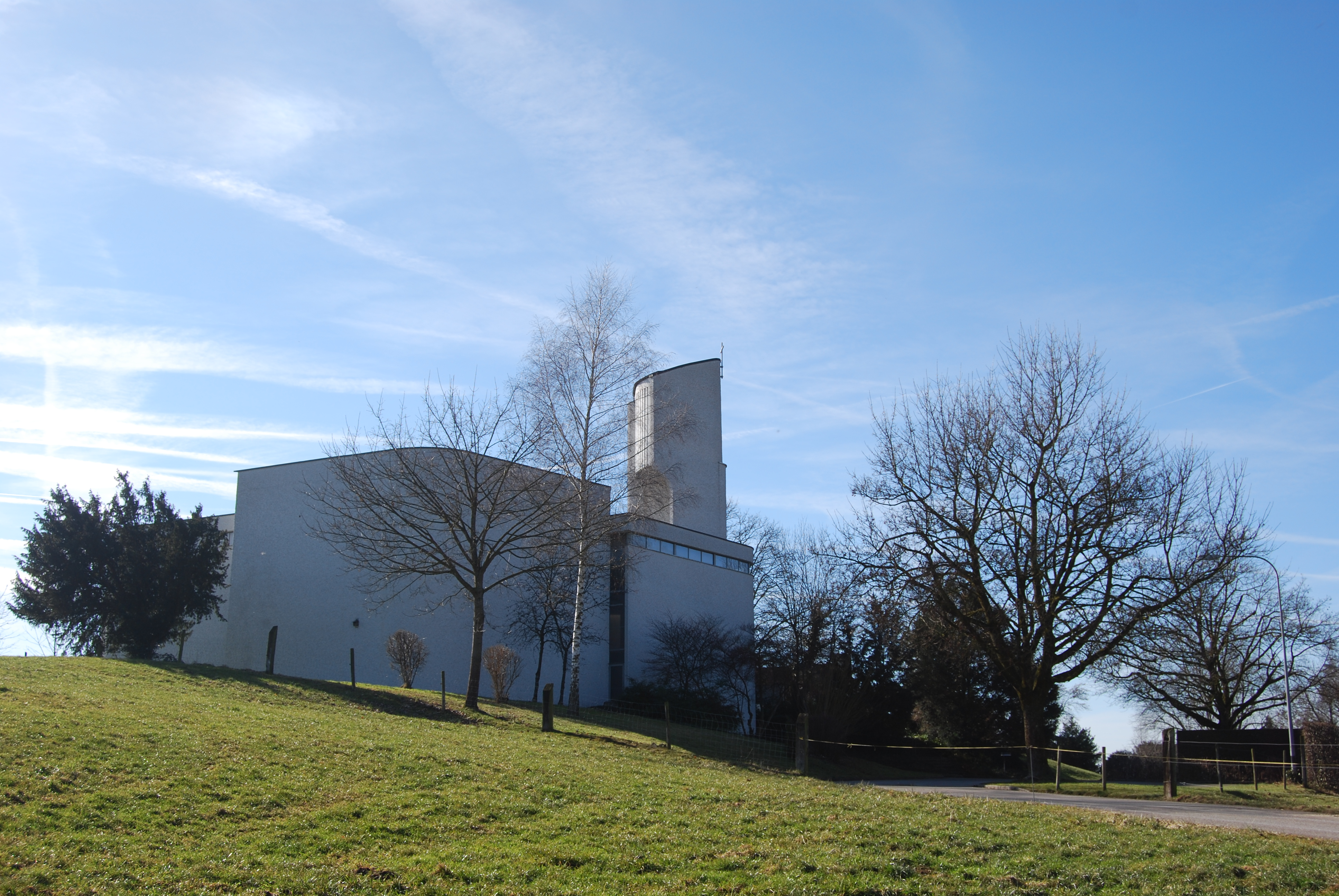 Catholic church of Müllheim, canton of Thurgovia, SwitzerlandEsperanto: Katolika preĝejo de Müllheim, Kantono Turgovio, Svislando